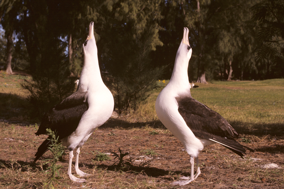 Gooney Bird Dance - Classic Pose - Midway Island - 1974